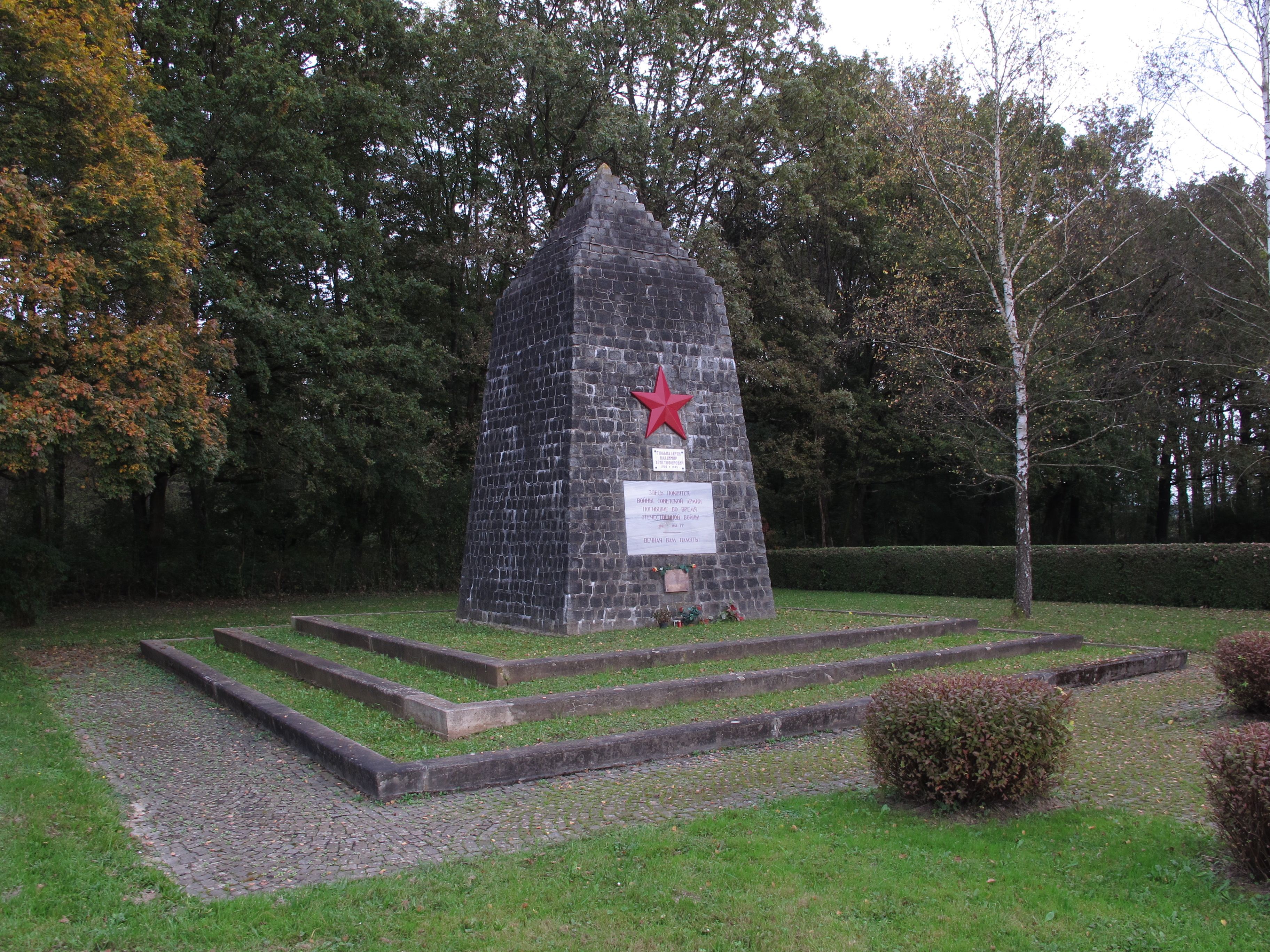 Cemeteries of World War II